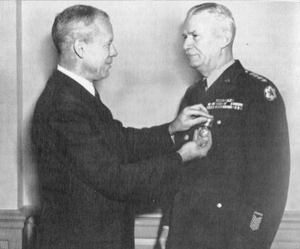 Under Secretary of War Robert P. Patterson awards General Brehon B. Somervell, commander of Army Service Forces, his third Distinguished Service Medal in October 1945.